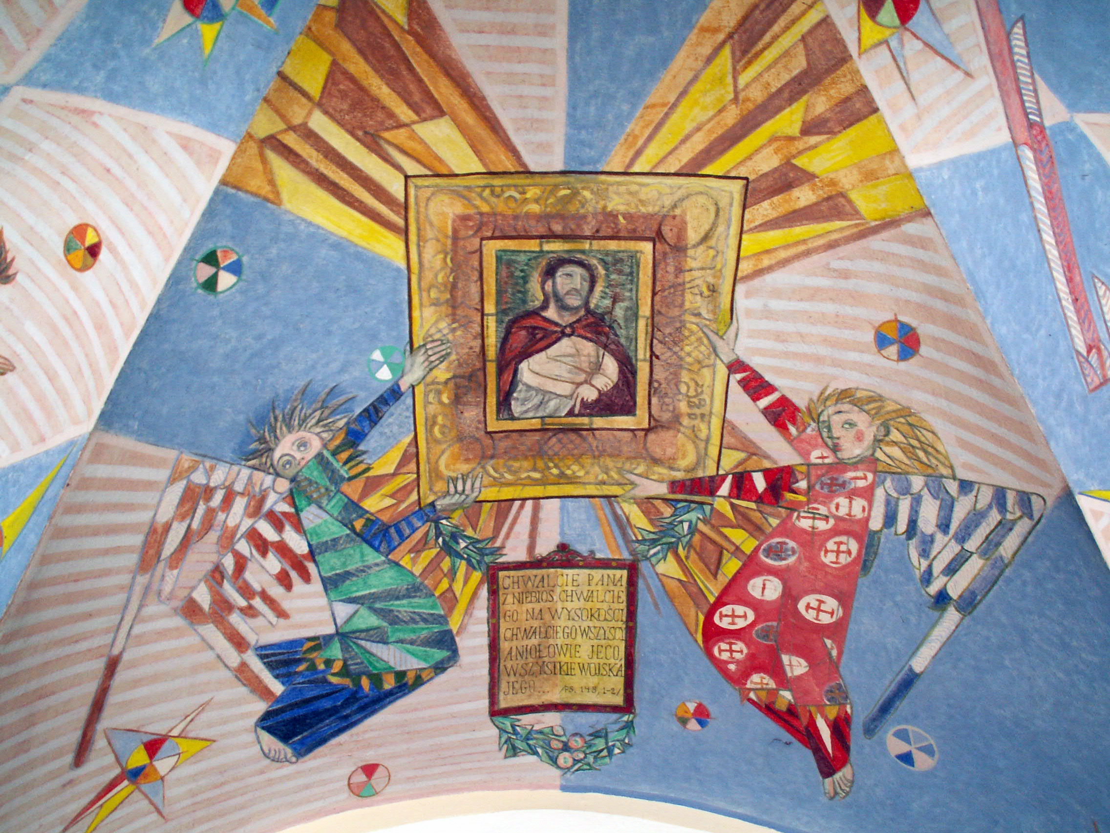 Church of St Andrew the Apostle, 1945 polychrome by Jozef Edward Dutkiewicz, Ciezkowice, Poland